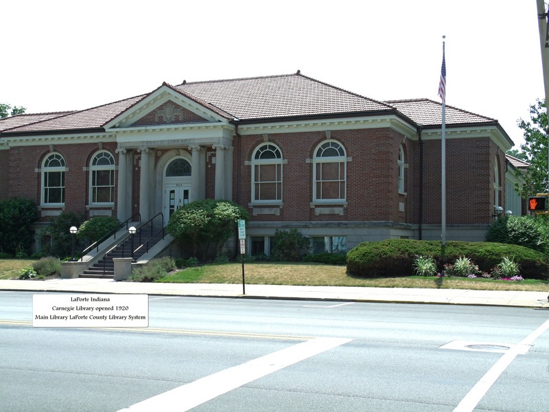 Front of the LaPorte Carnegie library, located at 904 Indiana Avenue (U.S. Route 35) in LaPorte, Indiana, United States. Built in 1920, it is part of the Indiana and Michigan Avenues Historic District, a historic district that is listed on the National Register of Historic Places.